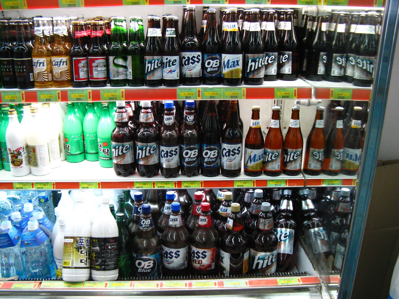 Korean beer and takju